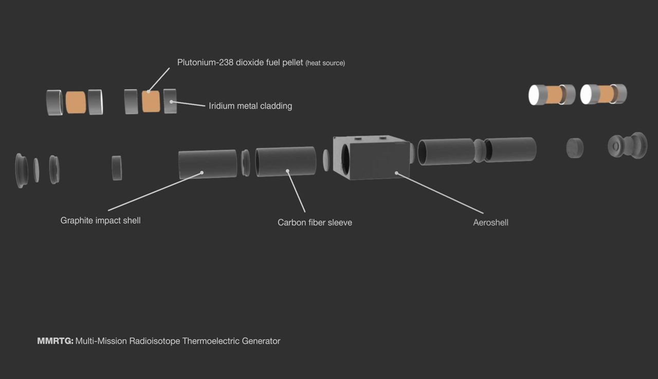 Inside a MMRTG's GHPS